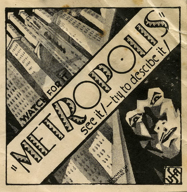 Advertisement for the film Metropolis (1927) by Fritz Lang The record is part of Archives New Zealand's Patent and Copyright Office collection. Copyright was applied for by Cinema Art Films Ltd, De Luxe Buildings, Courtenay Place, Wgtn, NZ in 1928. Archives New Zealand Reference: PC4 2247/1928